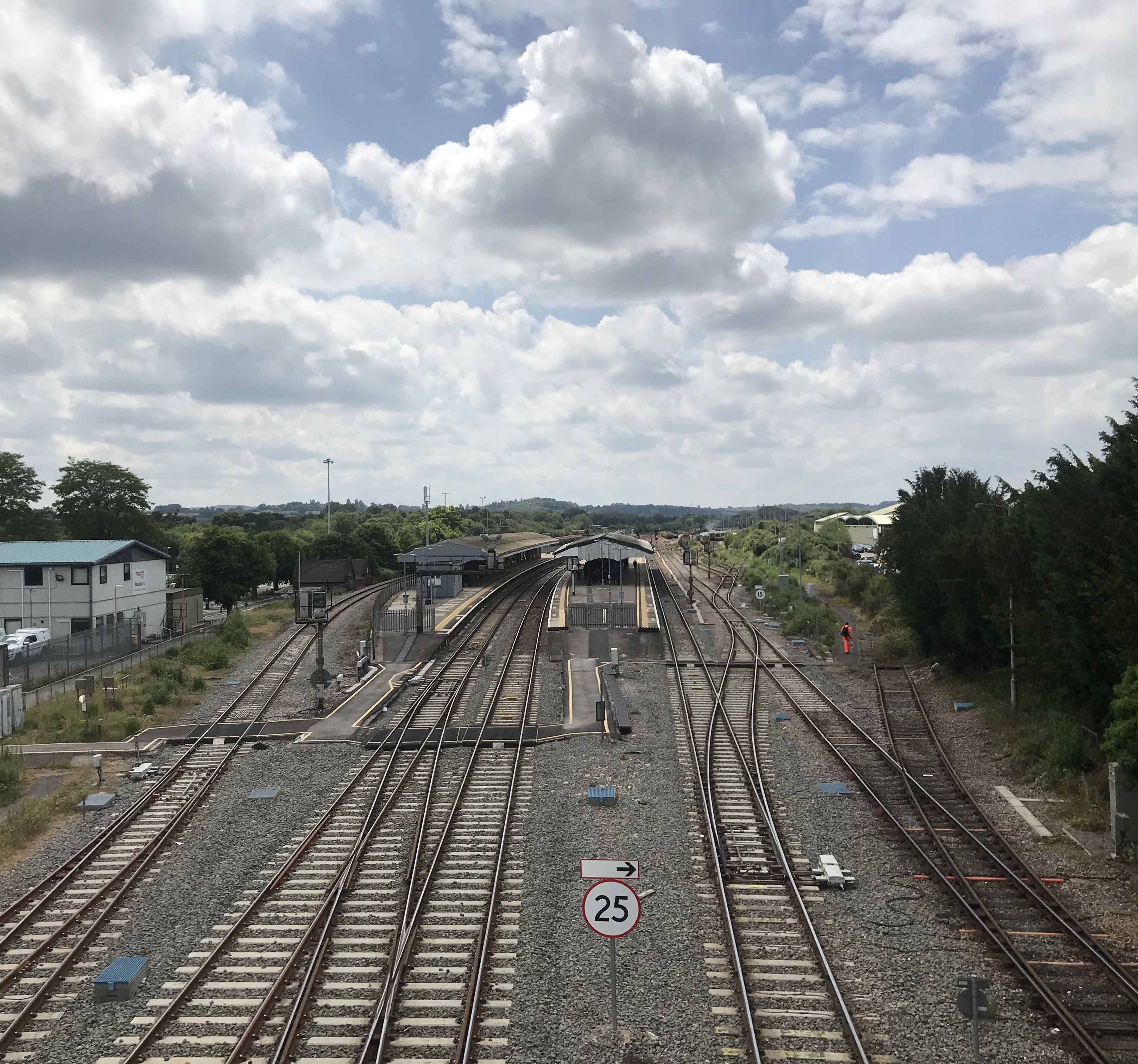 Westbury Railway Station, seen from the road bridge on Station Road